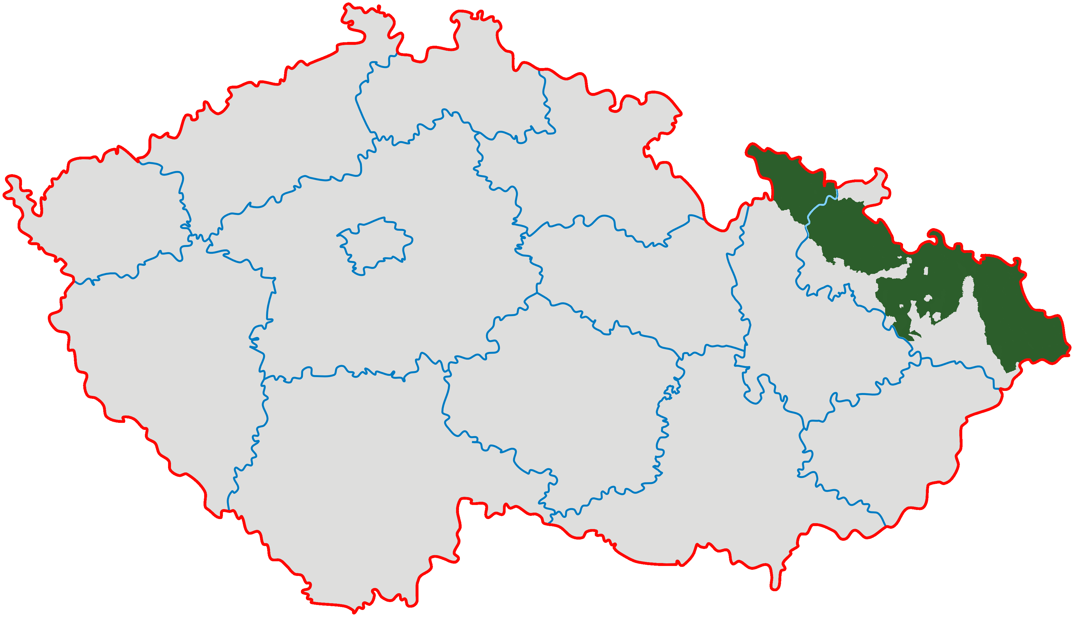 Czech Silesia (green); Moravian enclaves in Silesia (red) governed by Silesian authorities till 1928. After creation of province of Moravia and Silesia they ceased to exist.